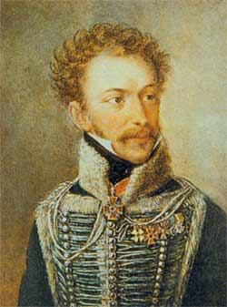 Alexander Ypsilantis in a Russian Hussar uniform, 1810s